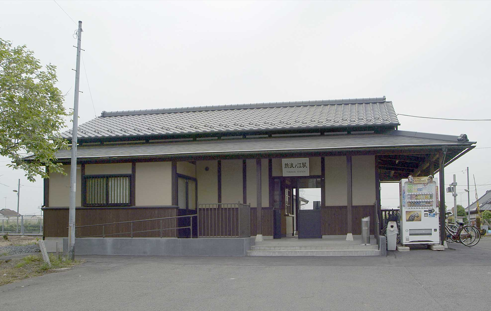 Kanto Railway Joso Line Tobanoe Station building, built in 2008. You can see other photographs of this object on Landscape-site.